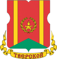 Tverskoy (rayon of Moscow), coat of arms